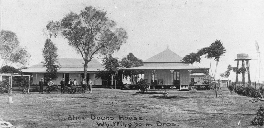 Homestead at Alice Downs Station, 1908 The property was owned by the Whittingham Brothers.